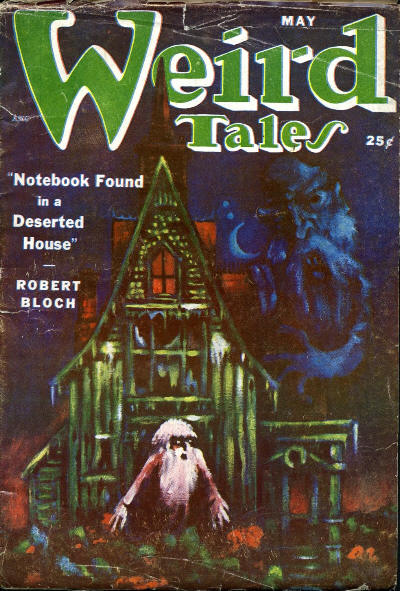 Cover of the pulp magazine Weird Tales (May 1951, volume 43, number 4) featuring "Notebook Found in a Deserted House" by Robert Bloch. Cover art by Lee Brown Coye.